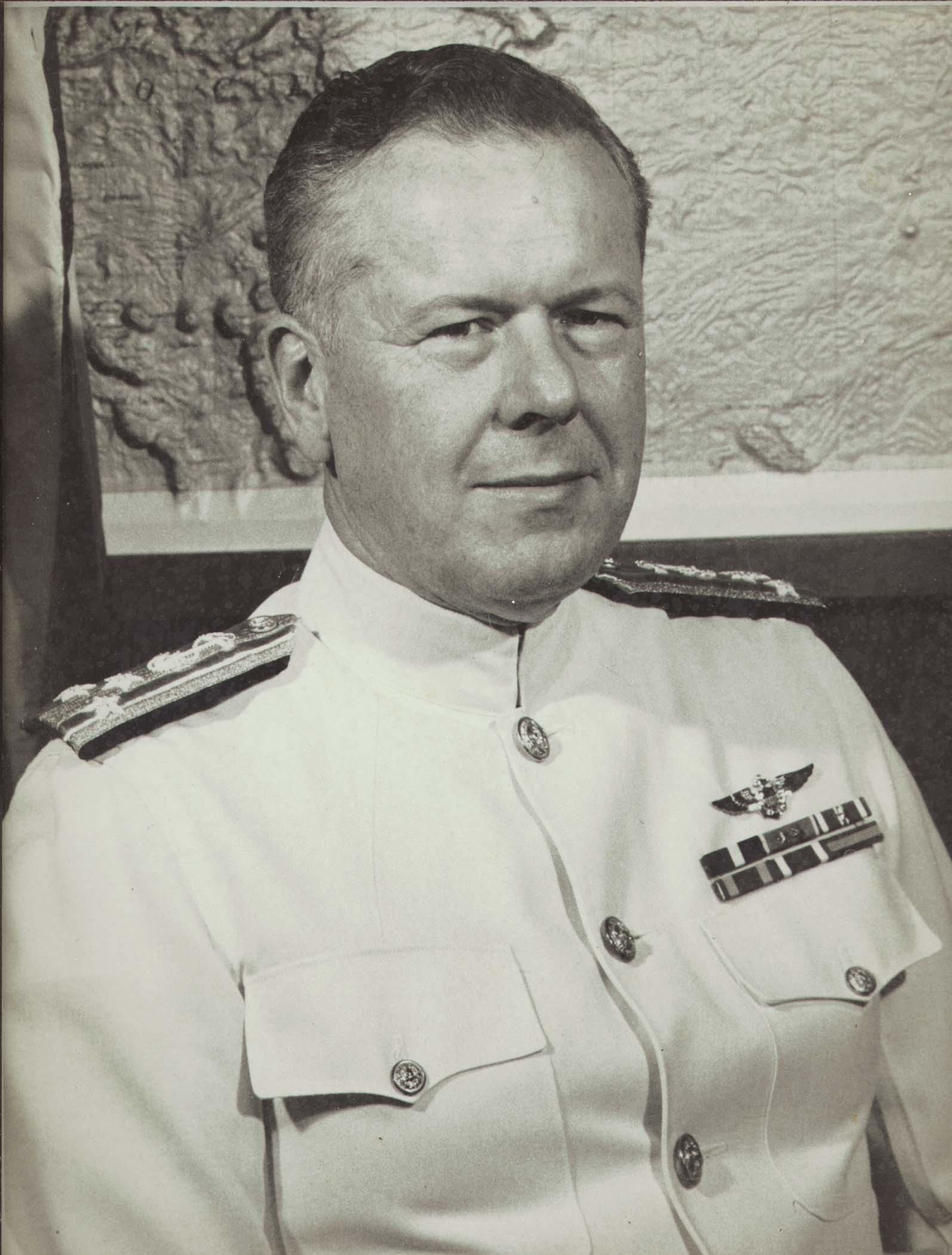 VADM. E. P. Aurand as Commander, Antisubmarine Warfare Force, Pacific